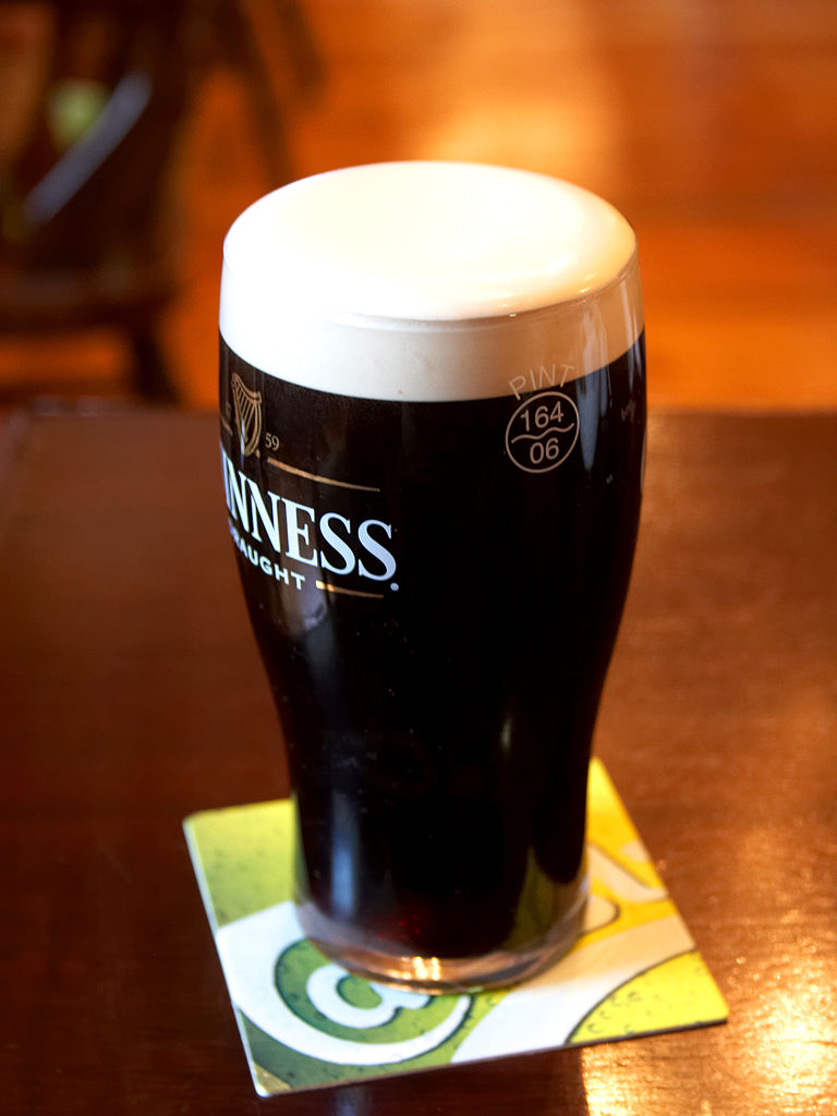 Pint of Guinness